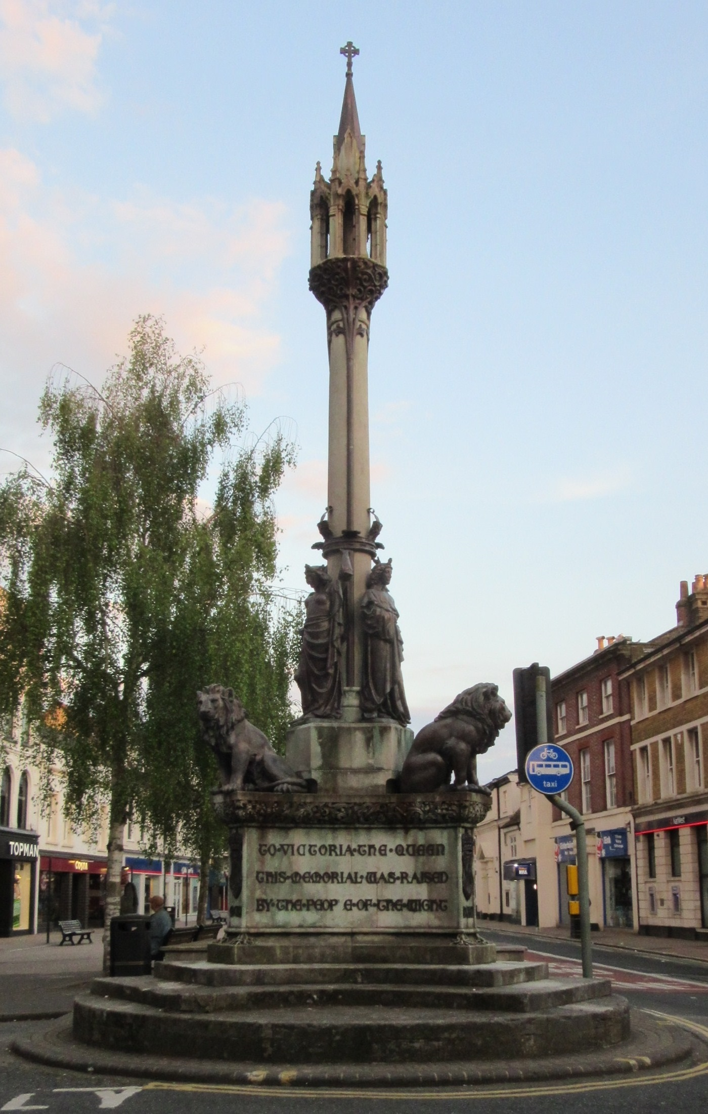 The Queen Victoria Memorial, St James's Square, Newport, Isle of Wight, England. Designed in 1901 by the architect Percy Stone.